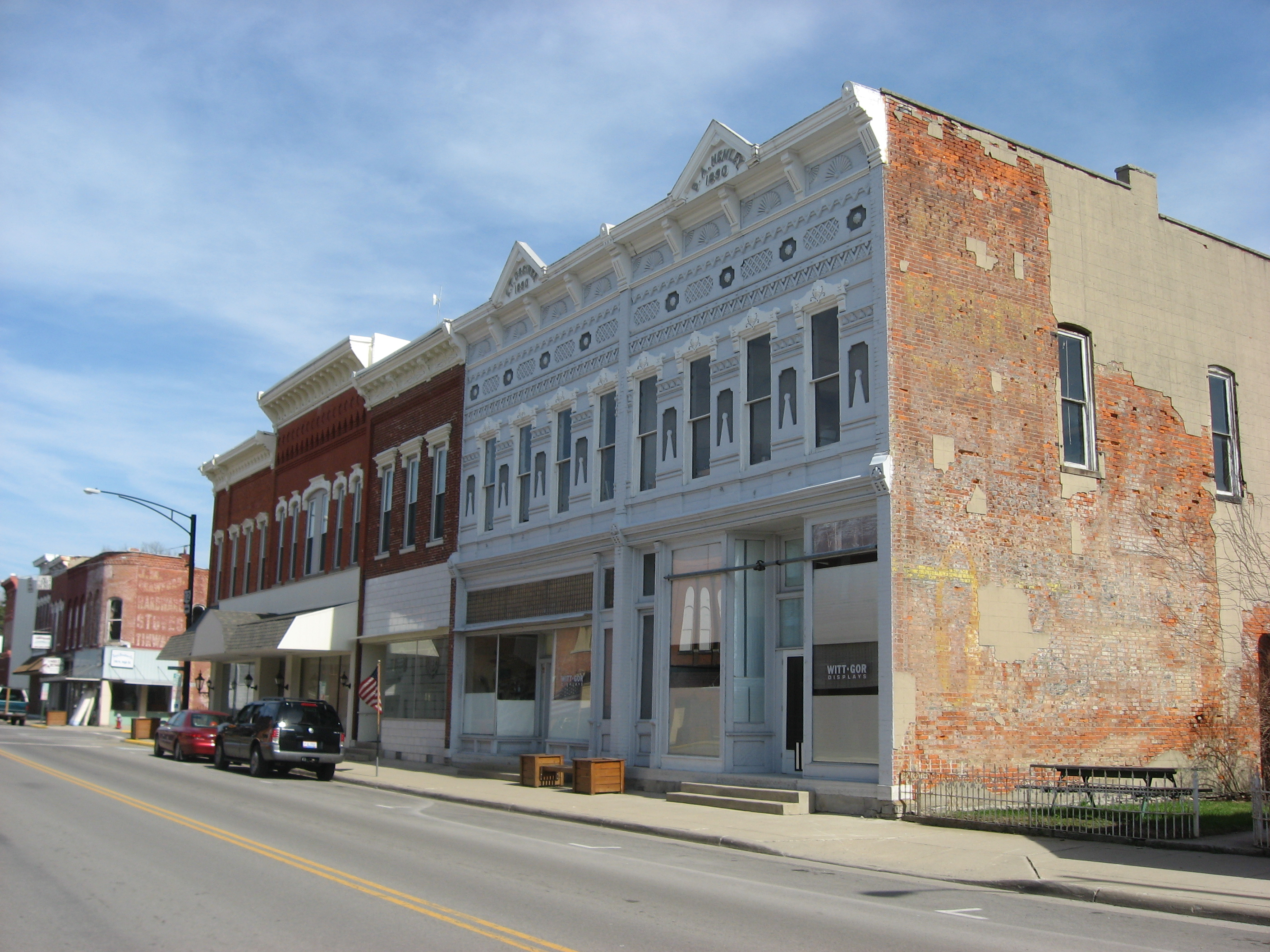 Buildings on the eastern side of the 100 block of S. High Street (State Route 12) in downtown Columbus Grove, Ohio, United States.